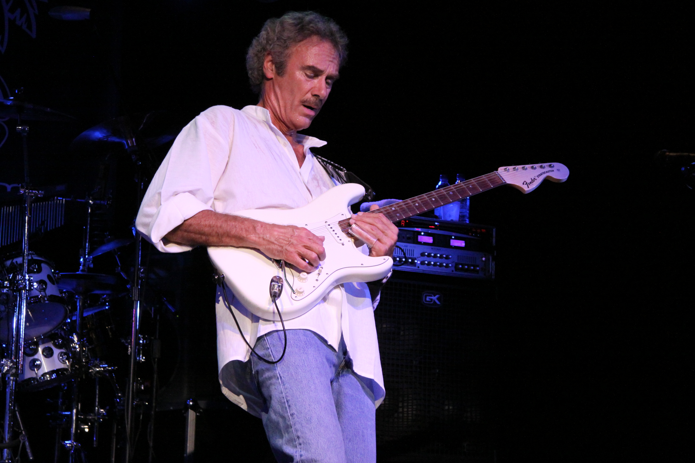 David Jenkins, founding guitarist/vocals of Pablo Cruise. The Blue Goose, Loomis, California. July 10, 2009